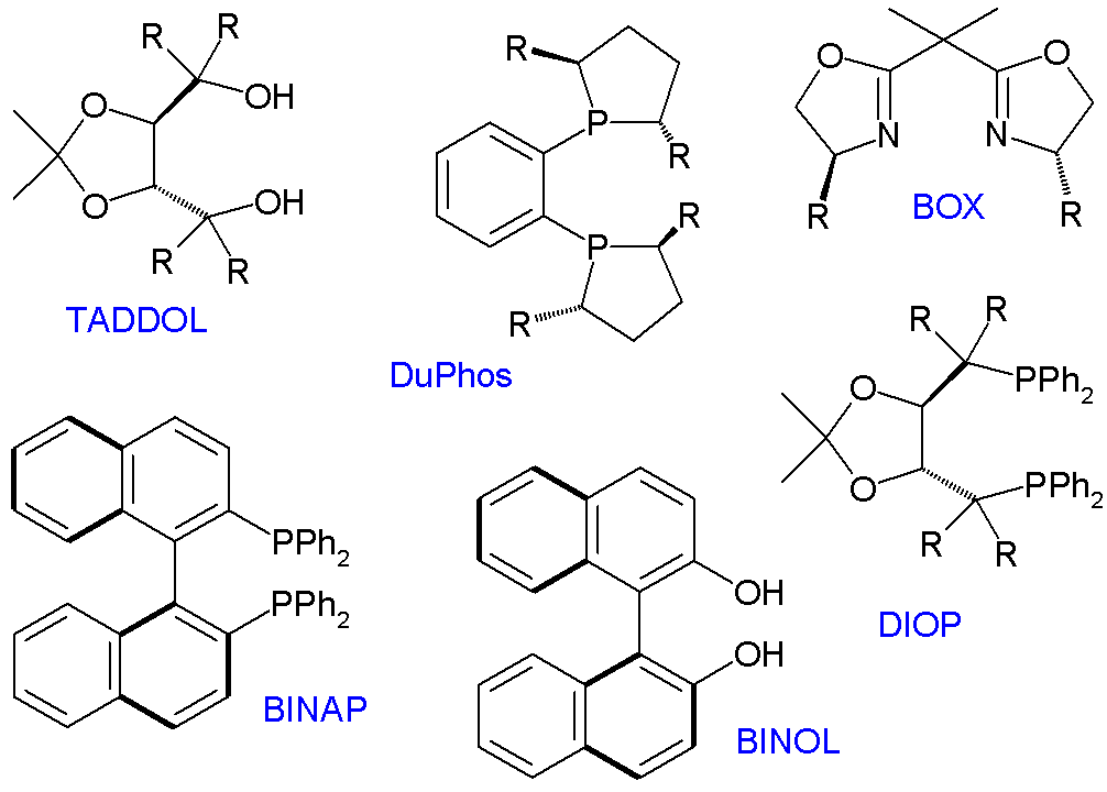 Chiral ligands